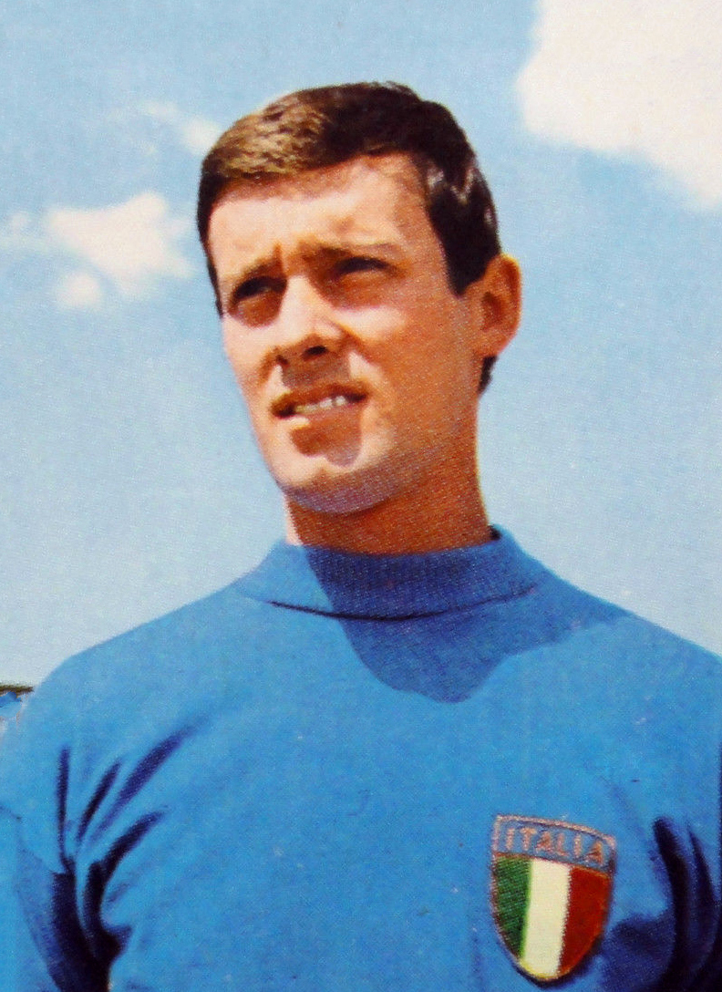 CAMPIONI DELLO SPORT 1969/70-n.147-ROSATO (ITA)-CALCIO